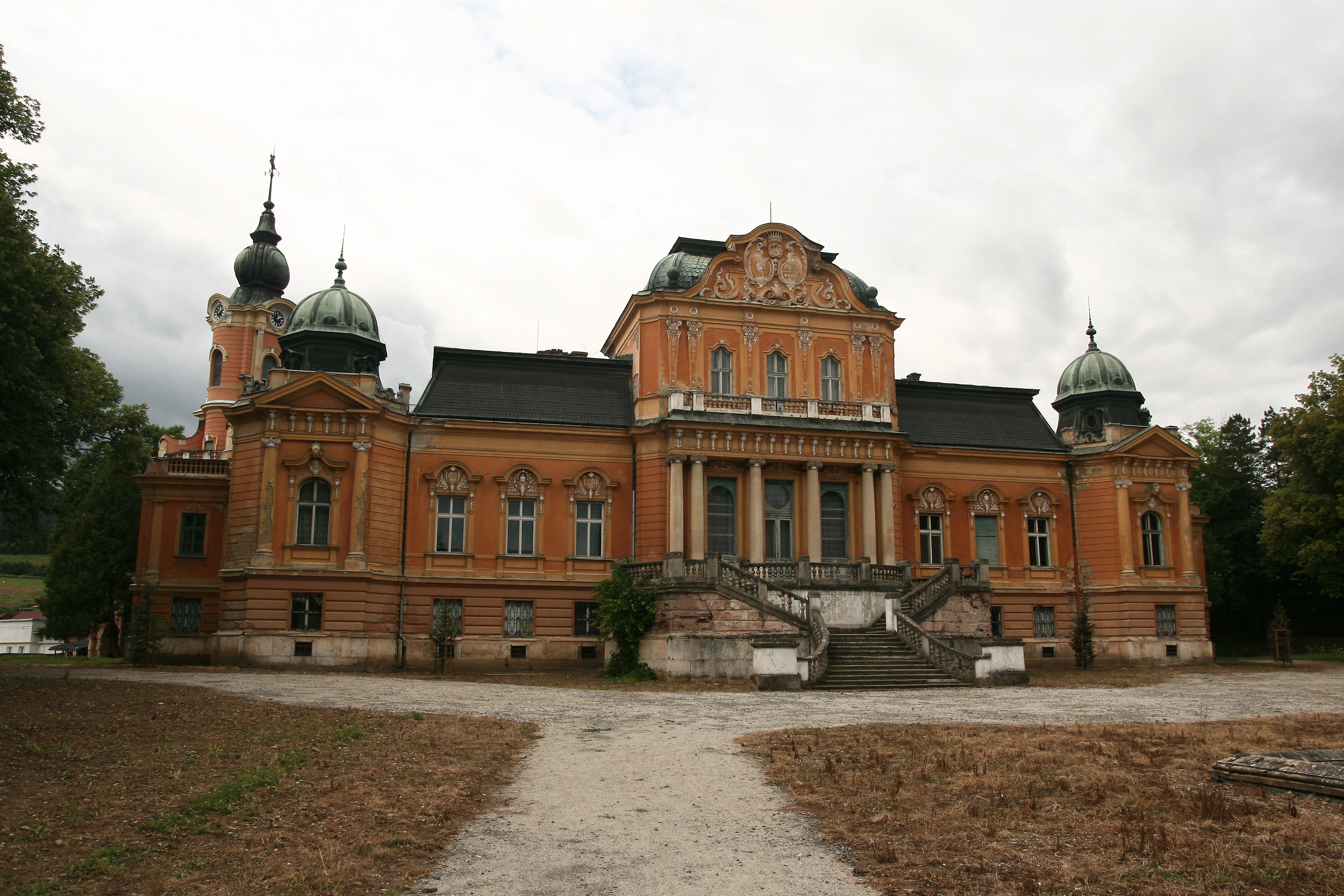 Château in Spišský Hrhov, Slovakia.